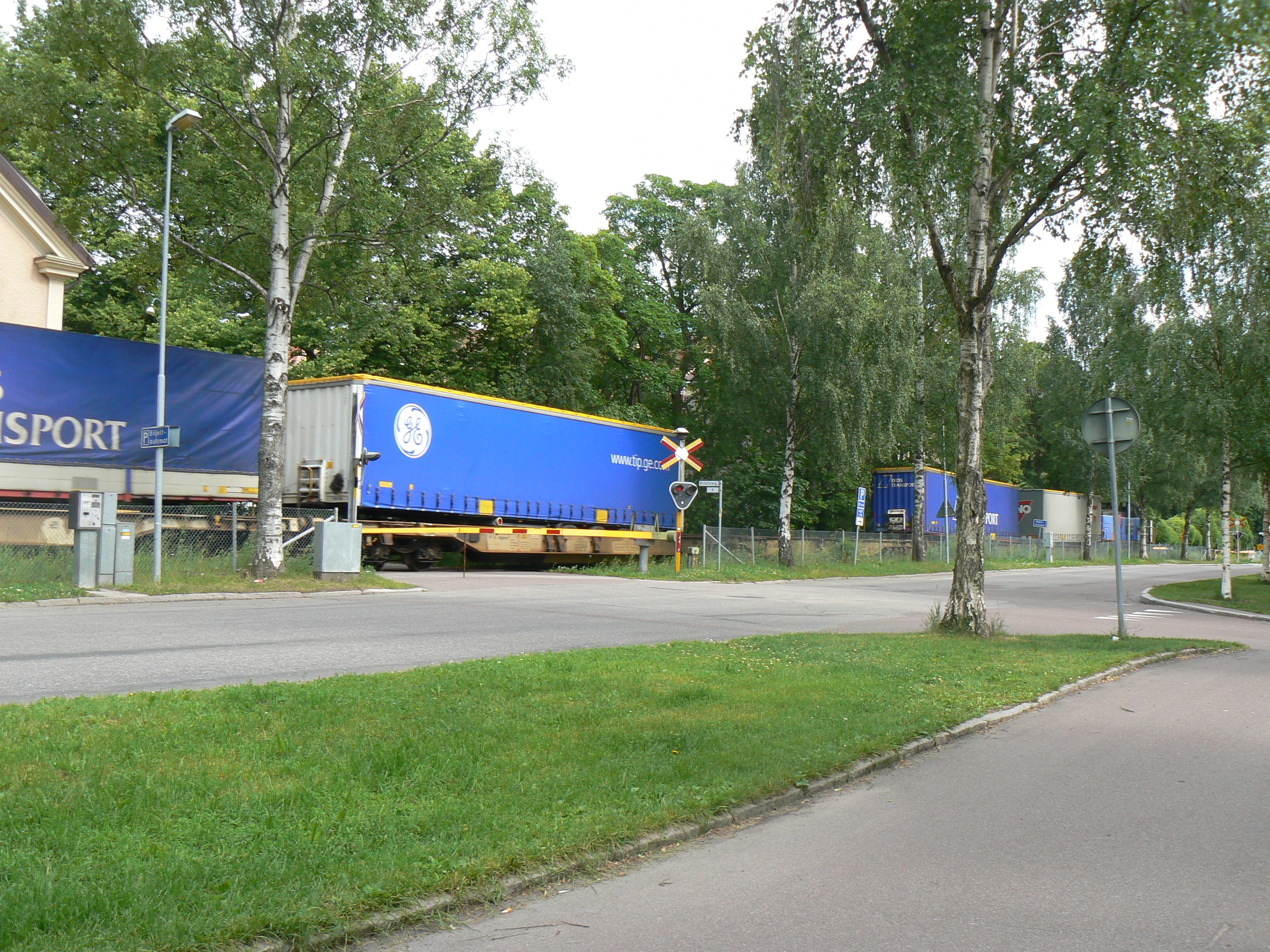 Cargo train on the Falun-Grycksbo Railway in Sweden. The engine is a T44 diesel locomotive.